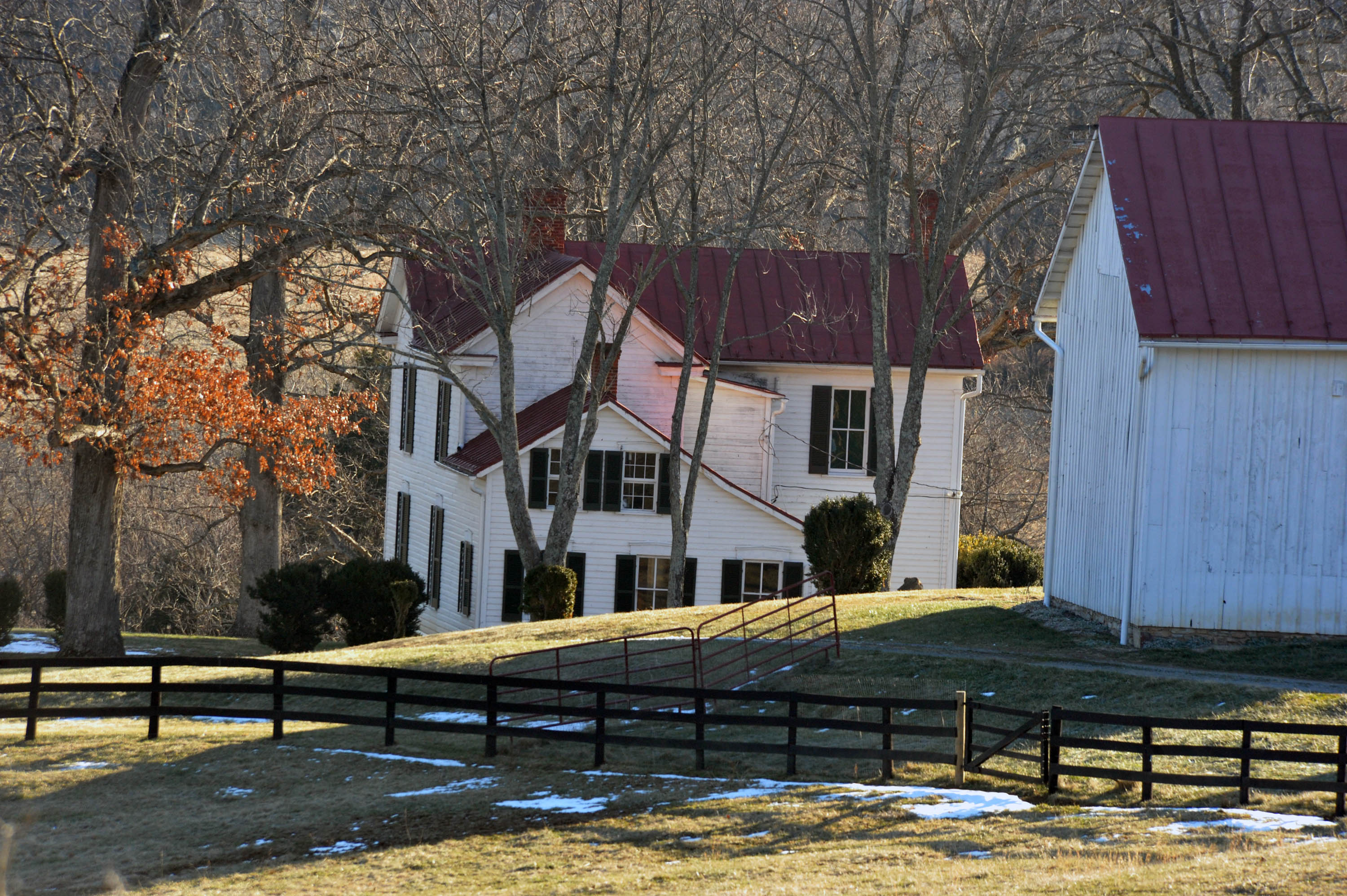 FARM WAS FOUNDED CIRCA 1820BY CAPT. JOHN MOORE, MILLER OF ALDIE MILL, BUT THE ITALIANATE HOUSE WAS BUILT IN 1881 BY ALEXANDER MOORE